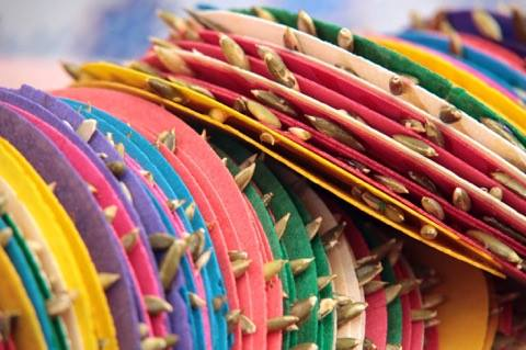 Wafers of differents colors and with gold nugget seed in Feria de la Nieve, 2018 in Xochimilco, Mexico City